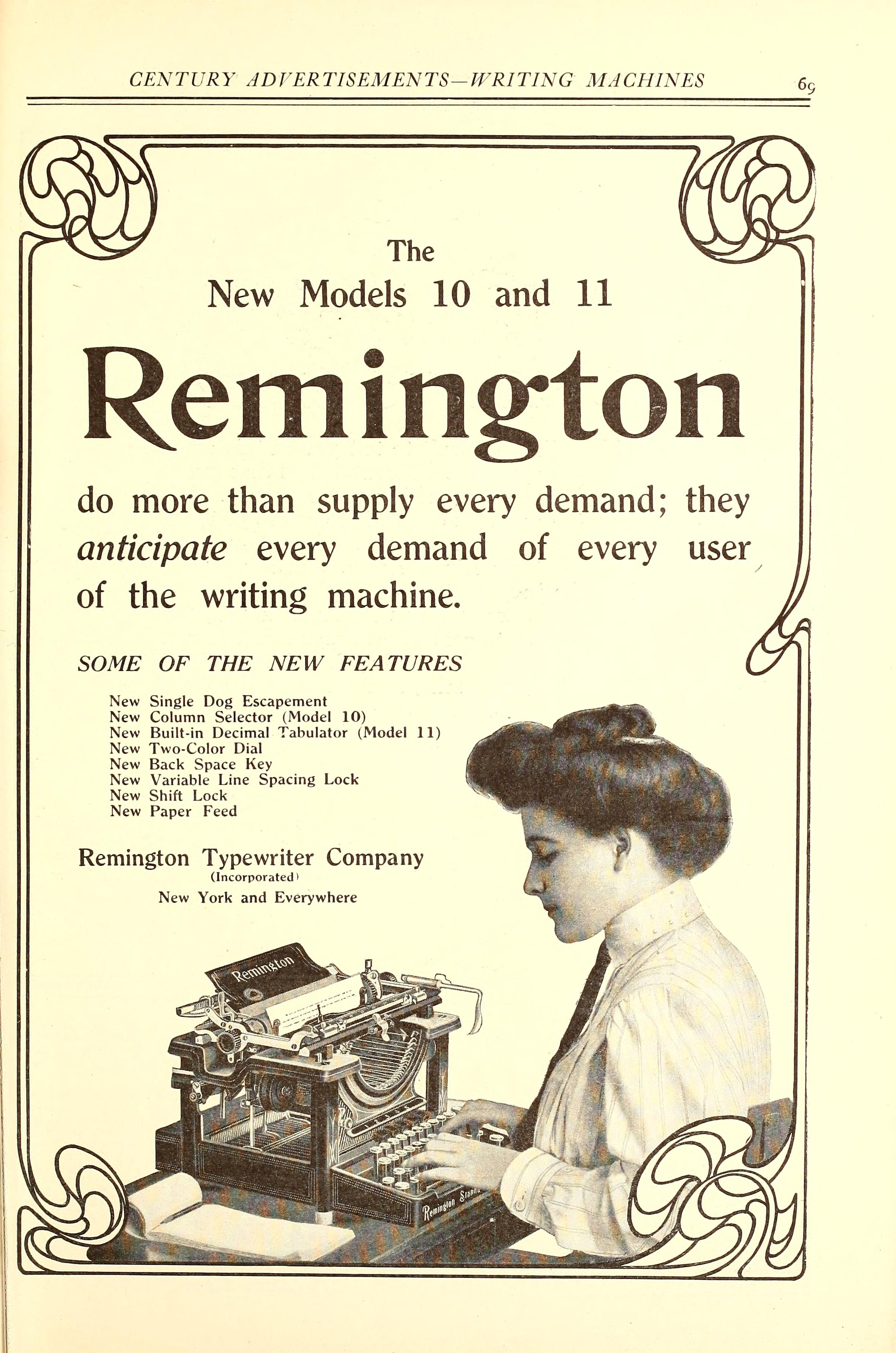 Remington Typewriter Company - New Models 10 and 11, 1909 Title: Lincoln centennial number Year: 1909 (1900s) Authors: Subjects: Lincoln, Abraham, 1809-1865 Lincoln, Abraham, 1809-1865 Trumbull, Lyman, 1813-1896 Presidents Publisher: New York Text Appearing Before Image: The New Models 10 and 11 Remington do more than supply every demand; theyanticipate every demand of every userof the writing machine. SOME OF THE NEW FEATURES New Single Dog Escapement New Column Selector (Model 10) New Built-in Decimal Tabulator (Model 11) New Two-Color Dial New Back Space Key New Variable Line Spacing Lock New Shift Lock New Paper Feed Remington Typewriter Company (Incorporated!New York and Everywhere Text Appearing After Image: 7° CENTURY ADVERTISEMENTS—FOR THE HOME CRANE S Correct Social Stationery Qranesodnertc^Cawn